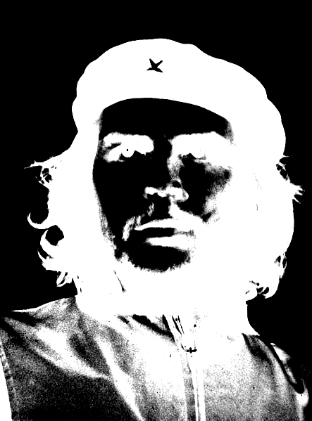 An inverted and contrasted image of Che Guevara, look at it, then look to a blank surface for creepy Afterimage action!